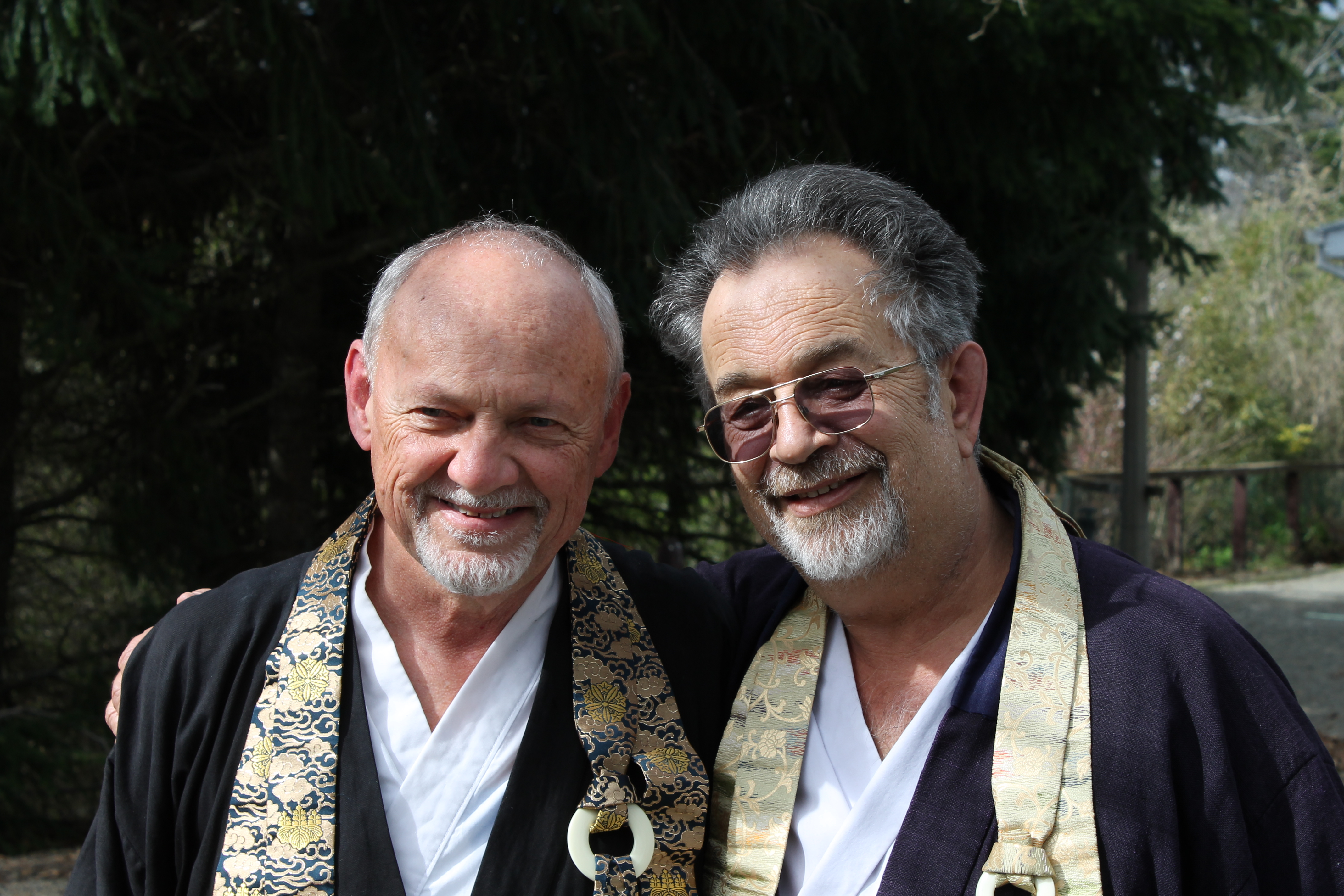 Arthur Wells (left) and Ross Bolleter